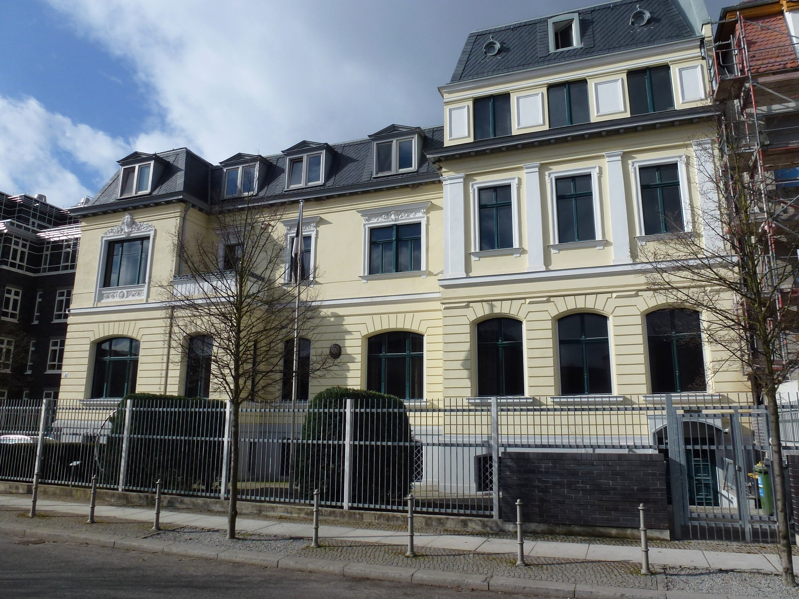 Berlin-Tiergarten Hildebrandstraße Estonian embassy